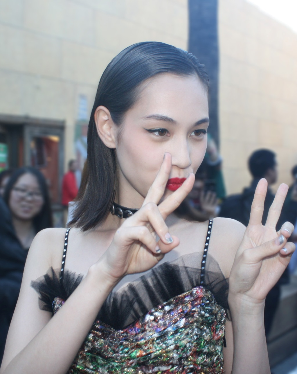 Kiko Mizuhara at the Attack On Titan World Premiere in Hollywood, California